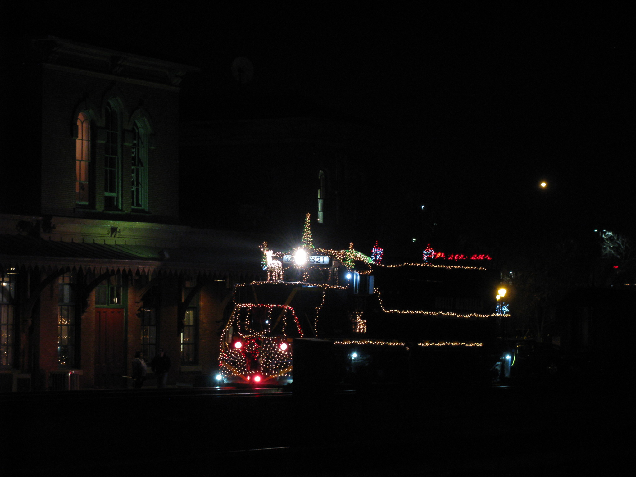 Arrival of Santa Claus in downtown Kent, Ohio by special train engine as part of the city's annual Festival of Lights